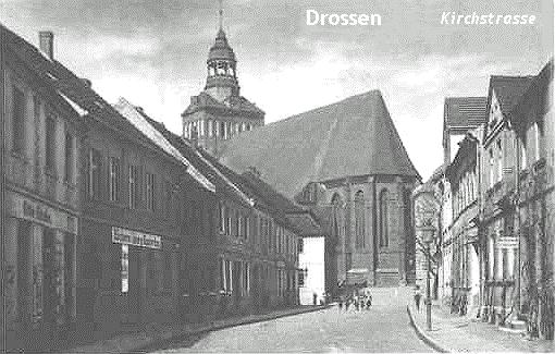 Drossen, Neumark, about 1900